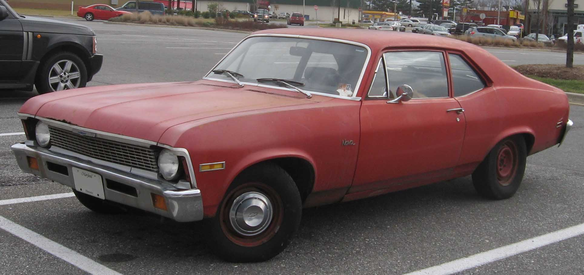 1969-1972 Chevrolet Nova photographed in Clinton, Maryland, USA.